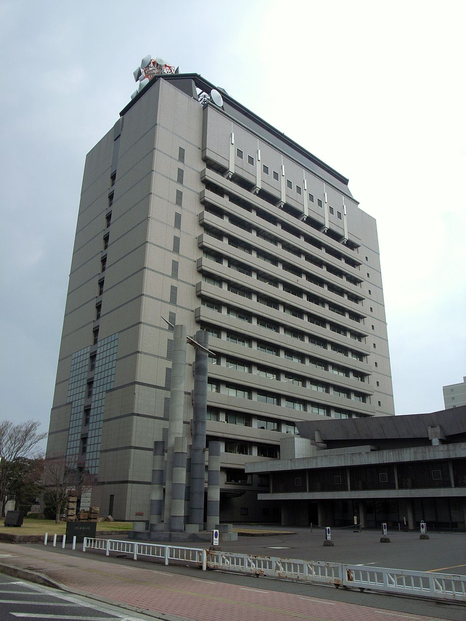 Oita Prefectural Office Building, Oita City, Oita Pref., Japan